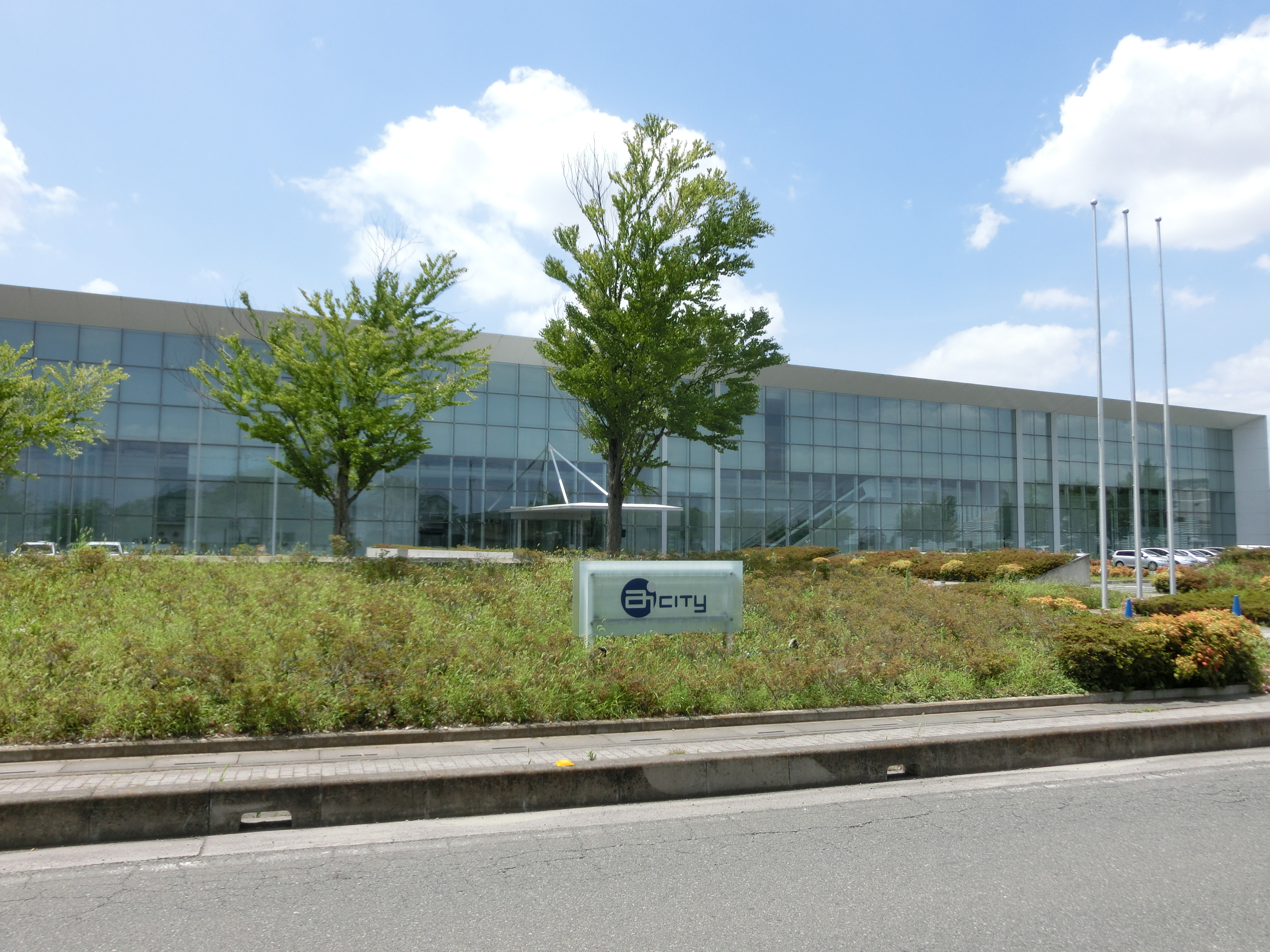 Akebono Brake Industry Head Office